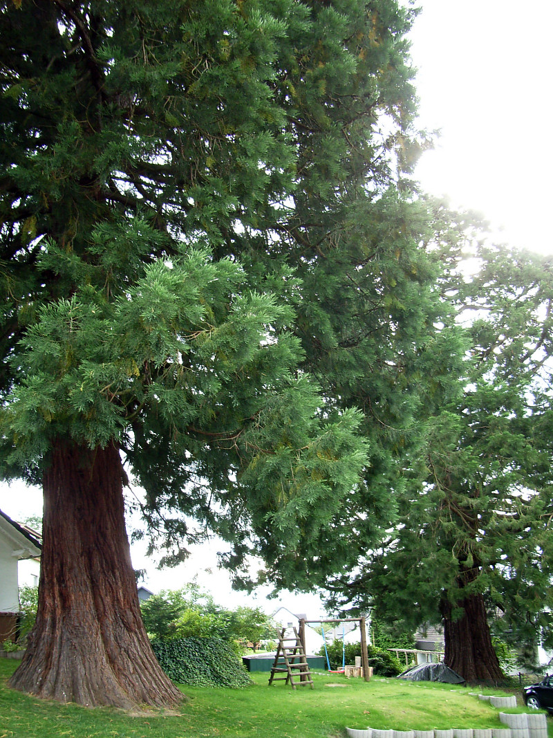 sequoias at Hülsenbusch, district of Gummersbach, North Rhine-Westphalia, Germany